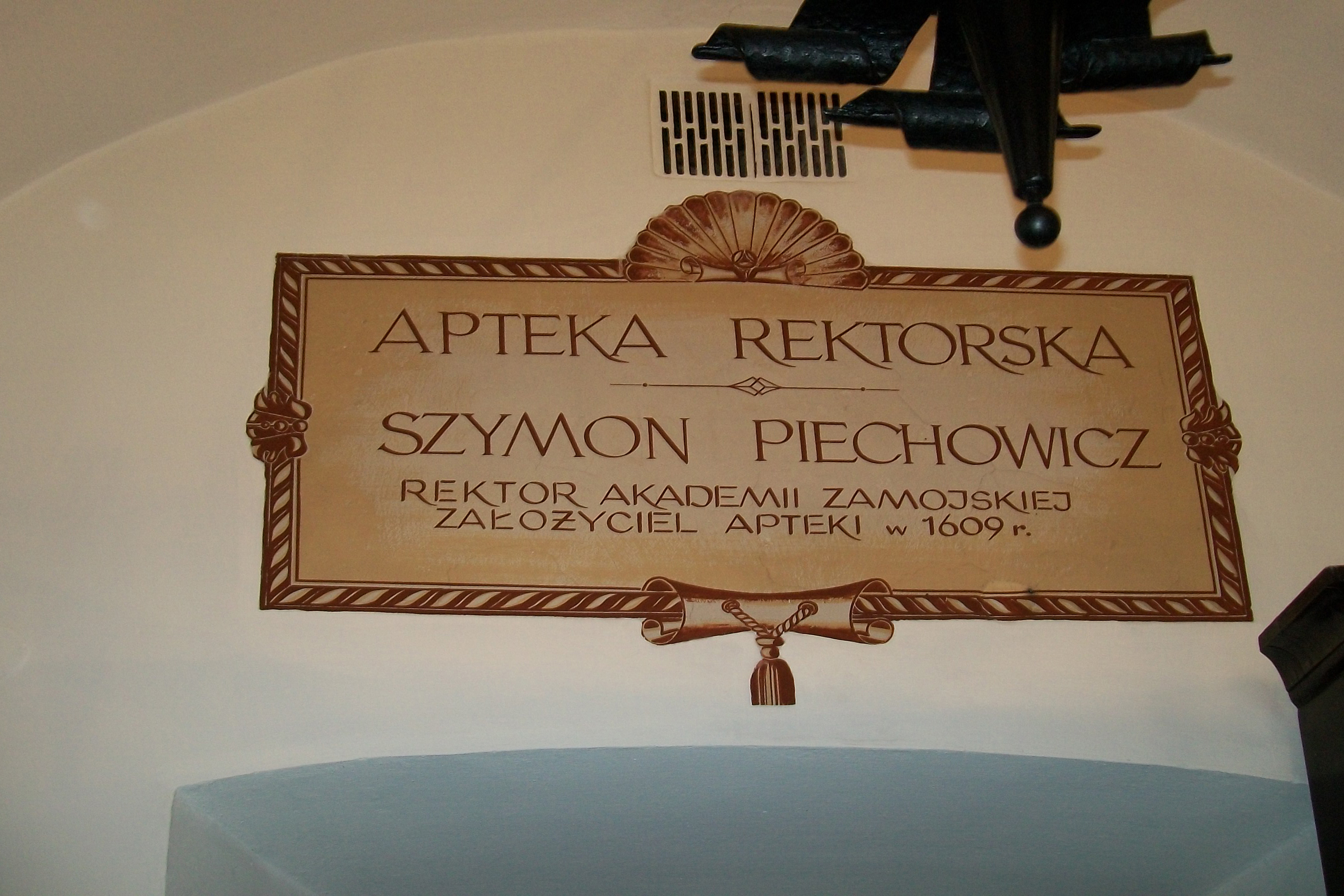 Pharmacy "Rektorska" in Zamość